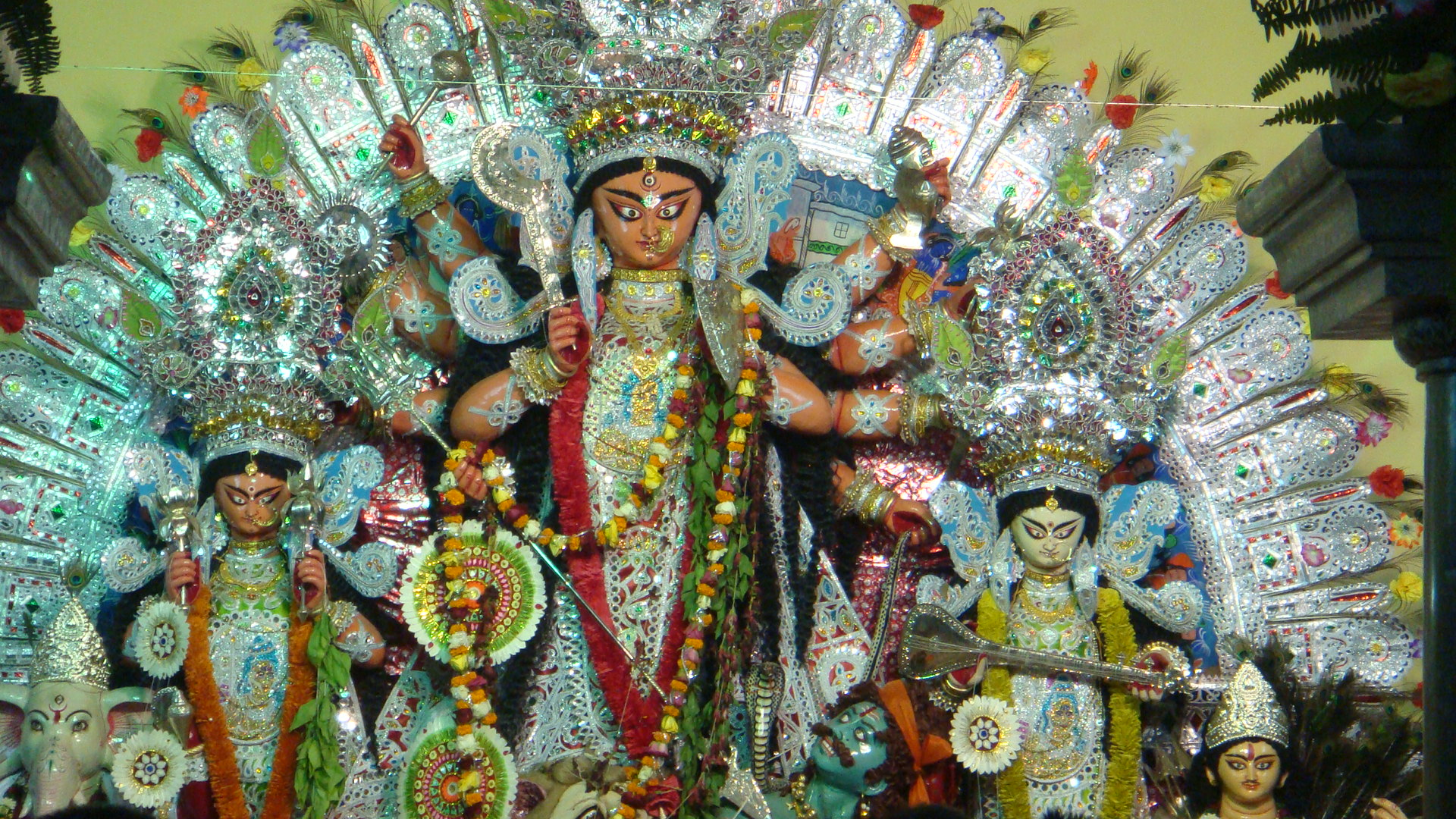 Choti Patandevi, Patna city